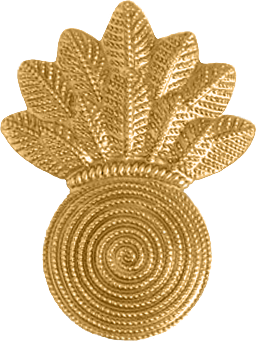 Rank insignia of a USMC Chief Warrant Officer, MOS 0306 (Infantry Weapons Officer). Worn on Marine BDUs.